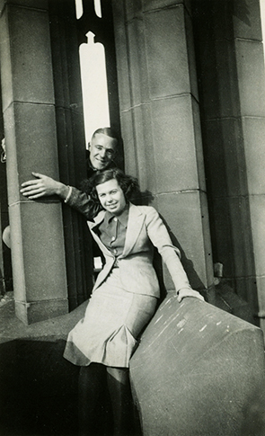 John Cornforth and Rita Harradence at the University of Sydney